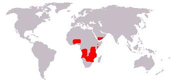 Kobus ellipsiprymnus Bewerking afbeelding: Afbeelding_(kaart).JPG BEWARE: Map is almost entirely wrong. For example, it mistakenly includes the Arabian Peninsula and southwestern Africa, but fail to include most of the northern part of this species' range. For correct map, see entry for Kobus ellipsiprymnus on